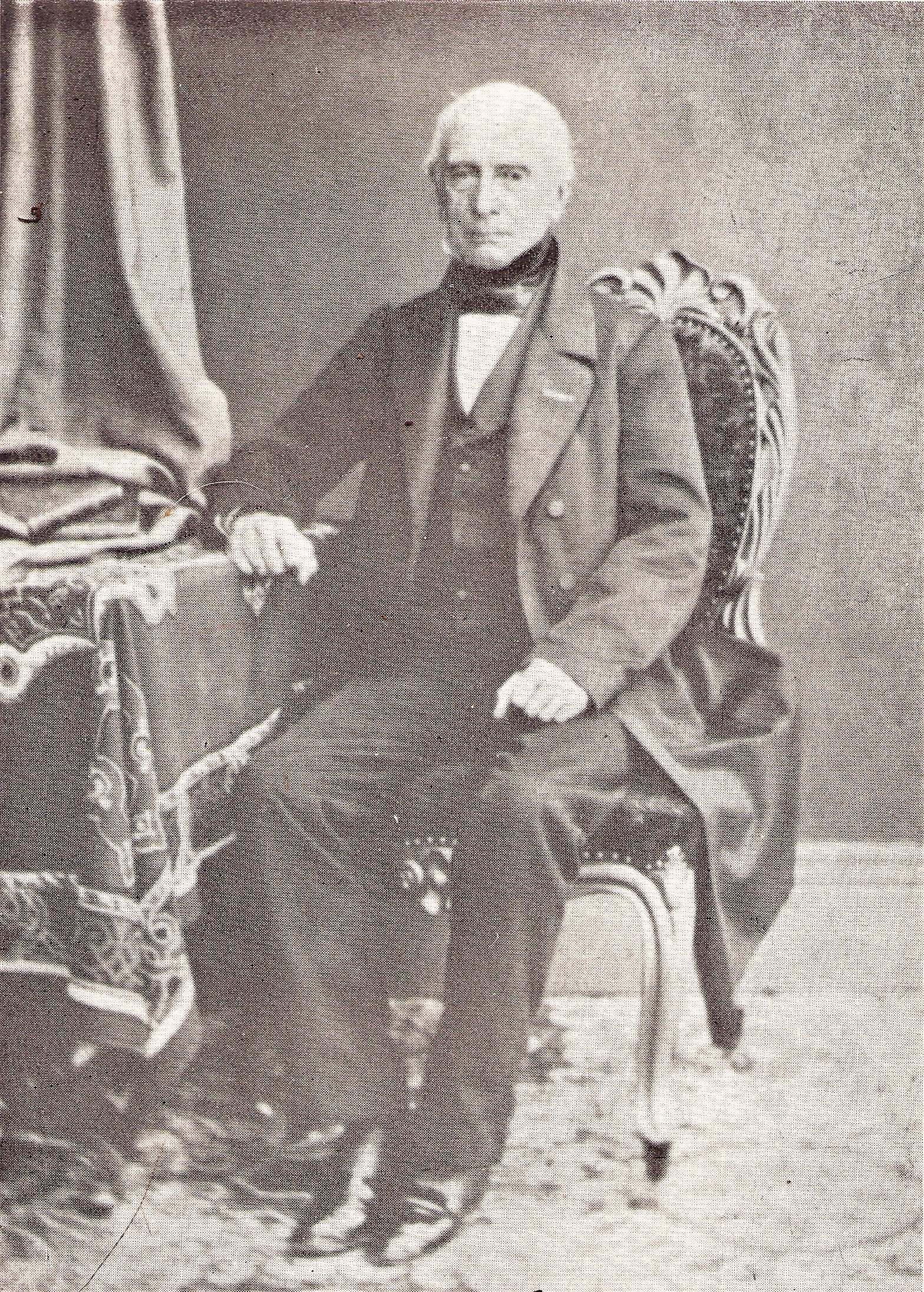 H.R. Trip